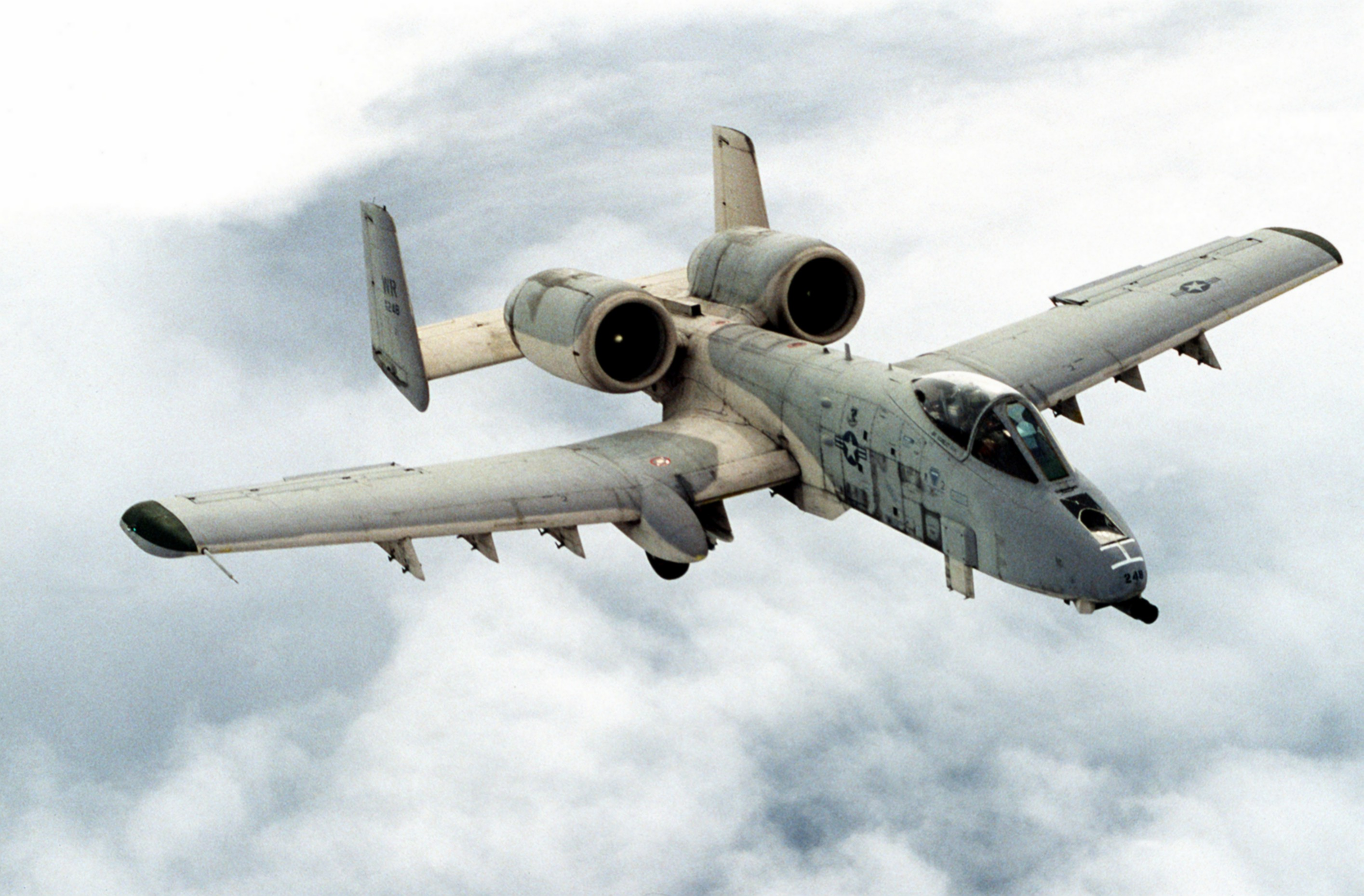 A U.S. Air Force Fairchild Republic A-10A Thunderbolt II (s/n 77-248) assigned to the 81st Tactical Fighter Wing at RAF Bentwaters and RAF Woodbridge in flight on 1 September 1980.